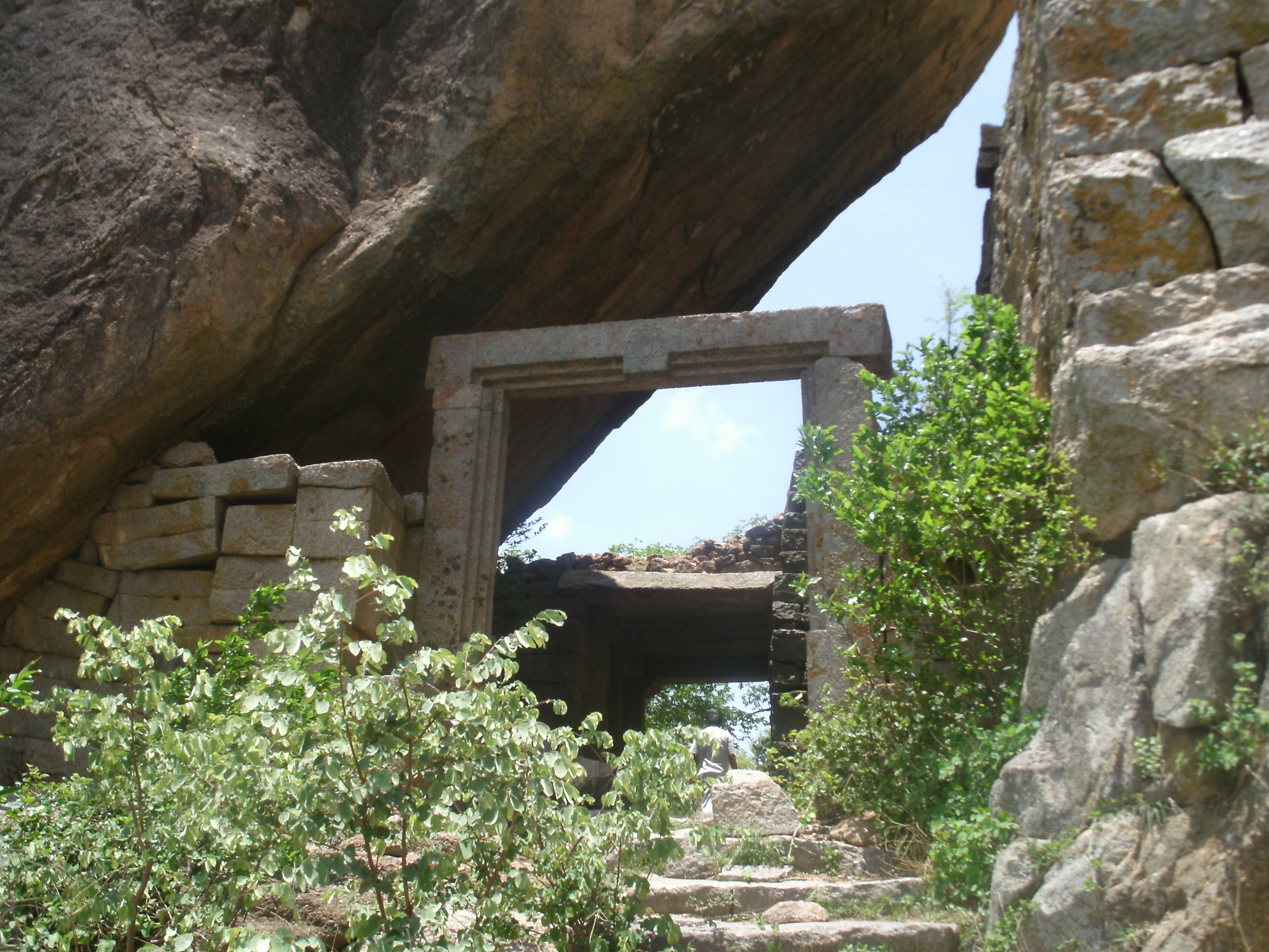 this is one of the gateways of the rachakonda fort